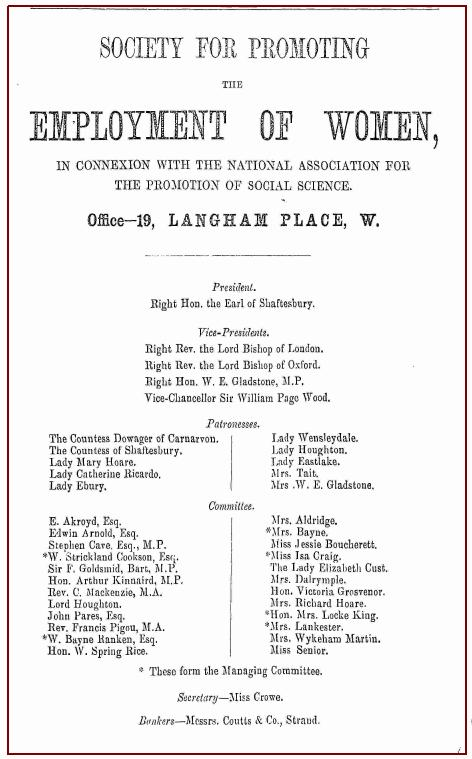 Notice appearing in the Alexandria Magazine, May 1st, 1864.